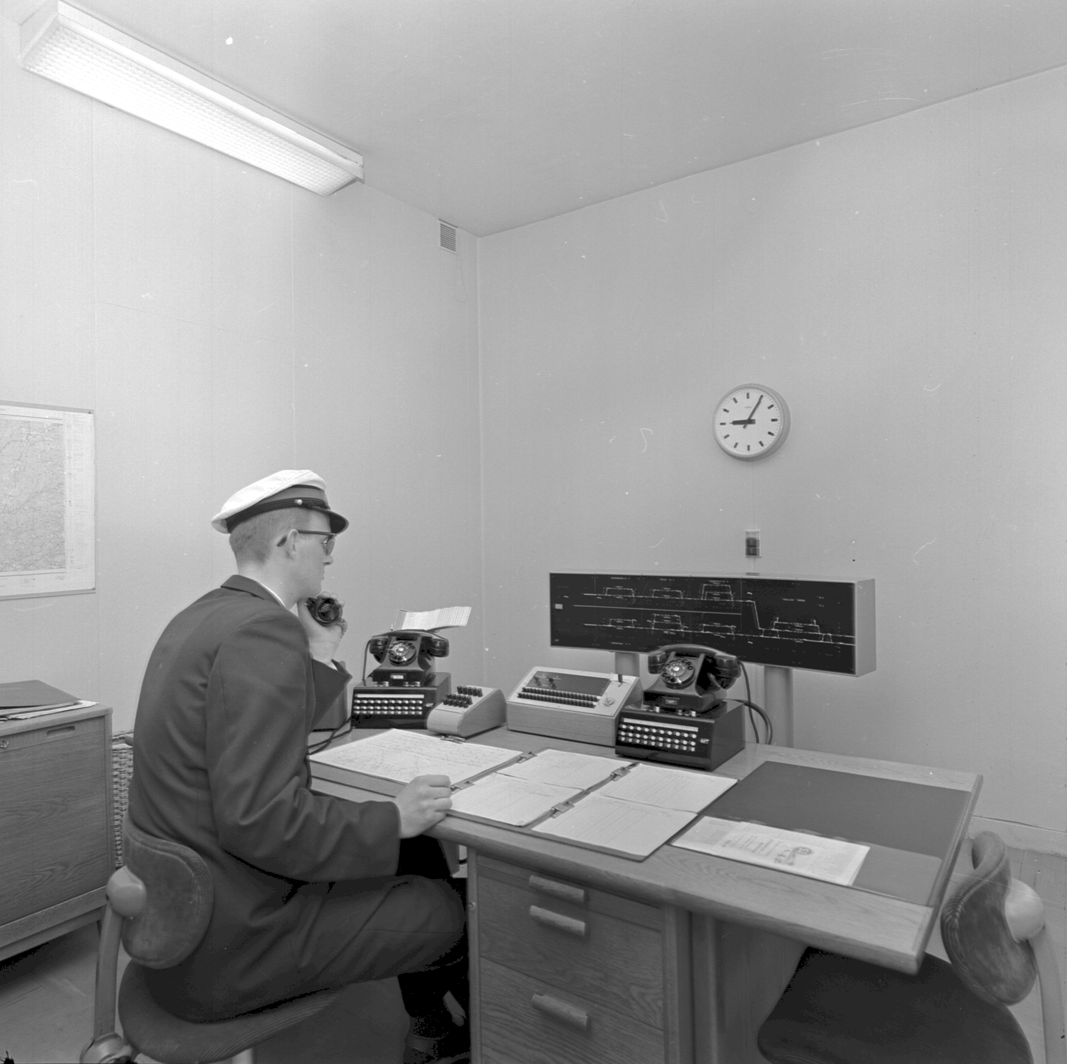 Train dispatcher with CTC panel in Roslags Näsby, an early example of centralized traffic control in Sweden. From this central, the lines Roslags Näsby-Lindholmen and Roslags Näsby-Åkersberga was controlled.